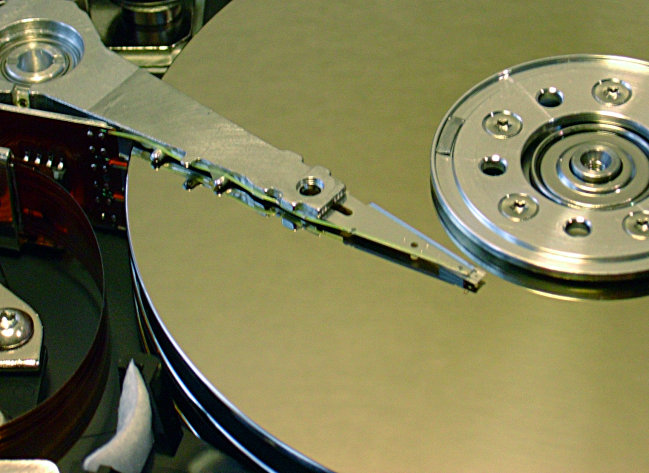 Harddrive (512 MB), with read-and-write head